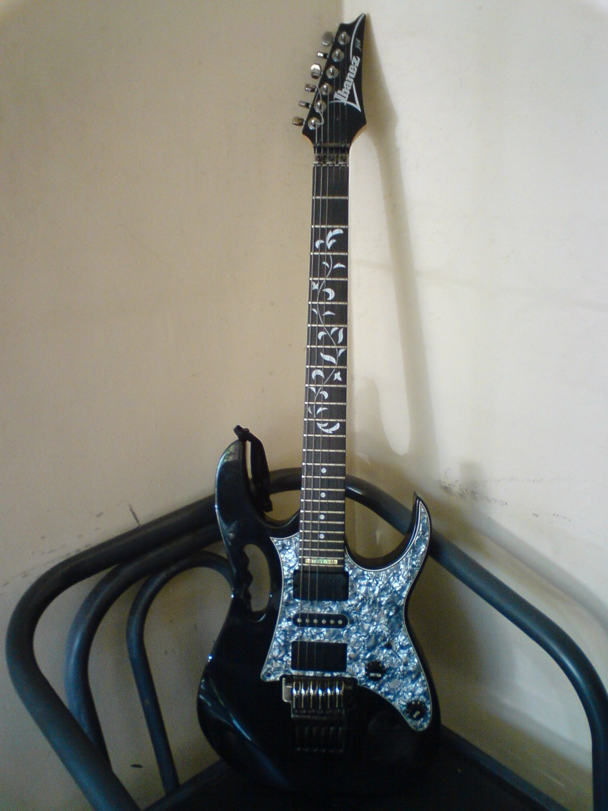 Ibanez JEM 555 BK electric guitar, 2003 model with Edge Pro II tremolo